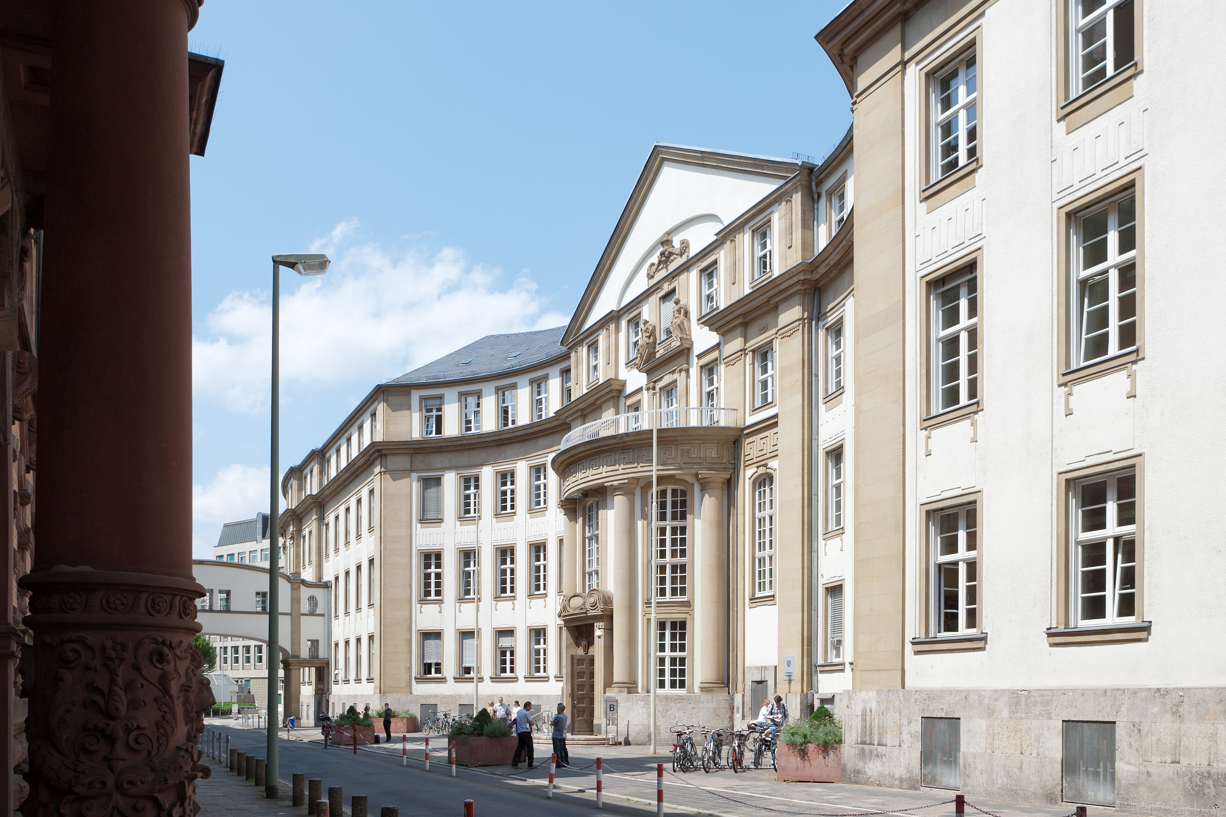 Frankfurt on the Main: Gerichtsstraße (Court Street) 2 (Building B of the County Court) as seen from the southeast